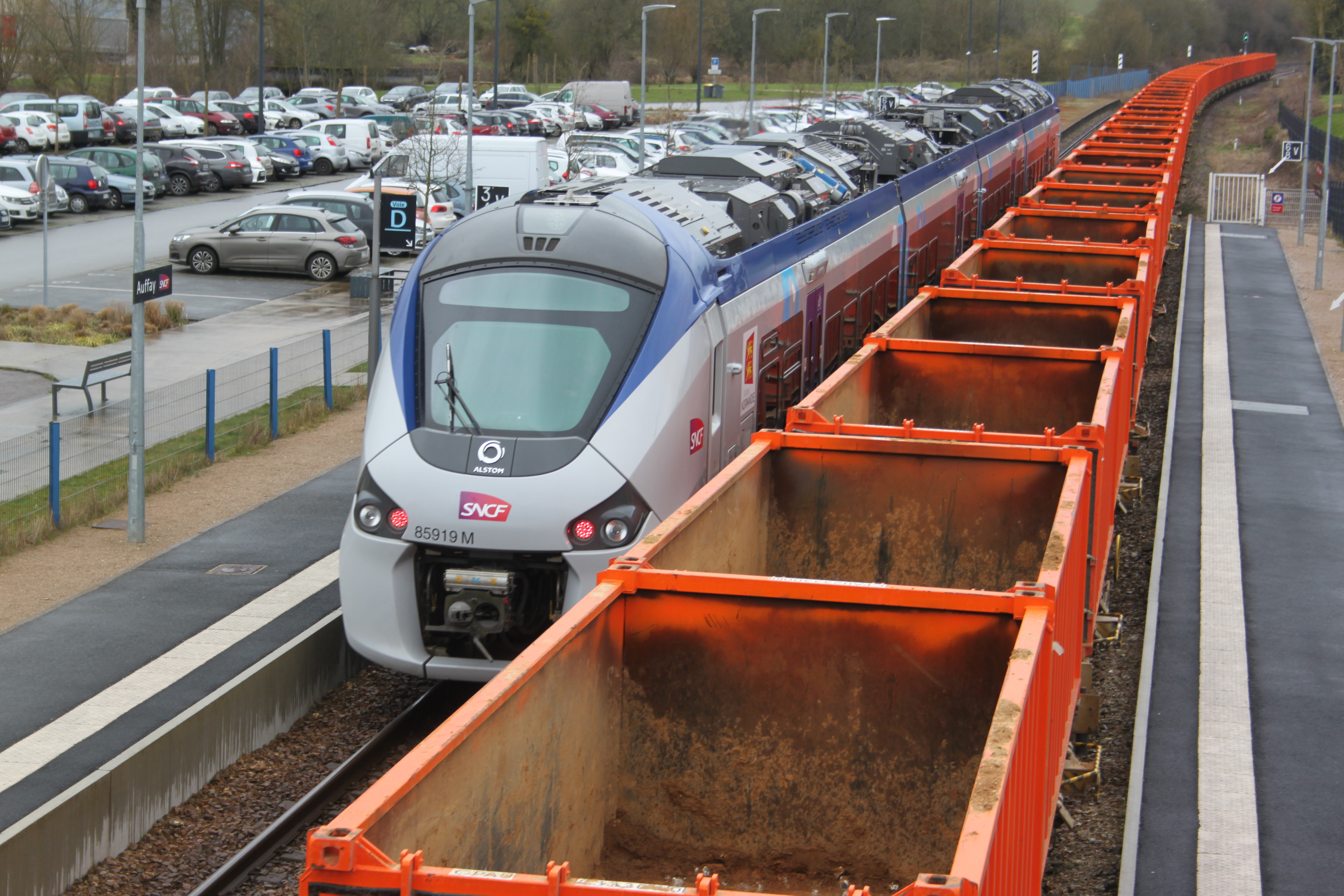 Gare d'Auffay, un train COLAS RAIL pour charger de la terre à Rouxmesnil-Bouteilles croise un TER pour Rouen .